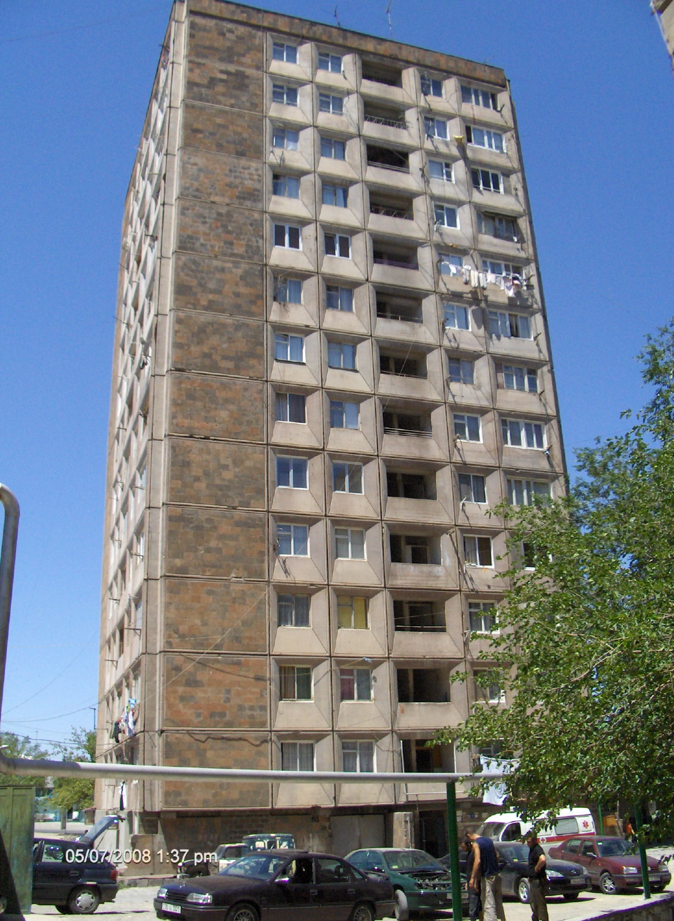 Building in Yerevan constructed with Badalyan's Plan